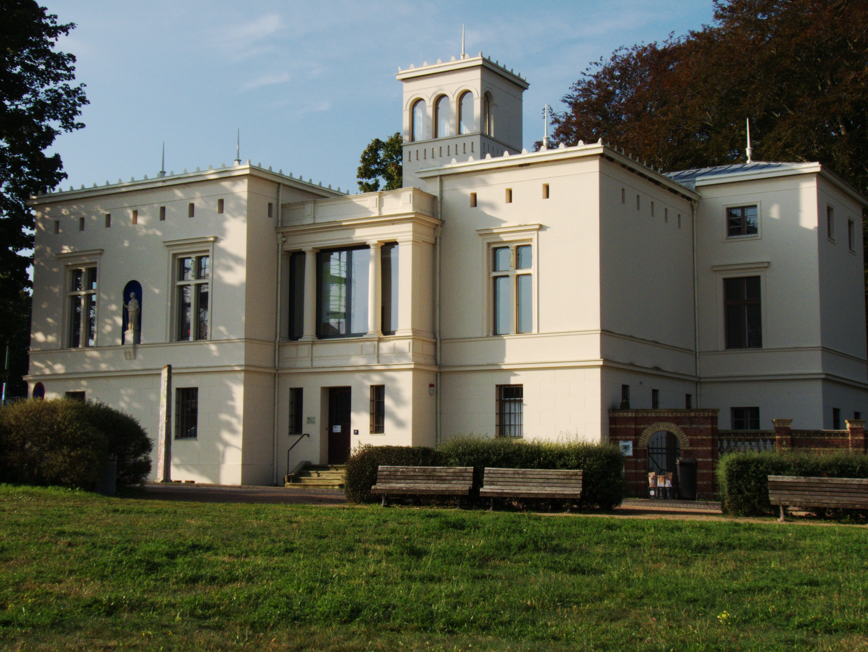 Villa Schöningen near the Glienicker Brücke. Also visible in this picture is a piece of the former "Wall" between East and West Germany.